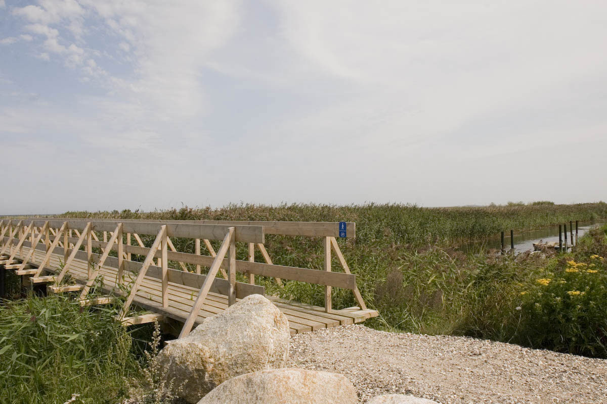 Elling Å, Denmark, crossing at the creeks mouth